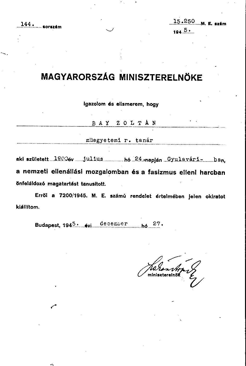 Varification that Zoltán Bay fought against fascism.